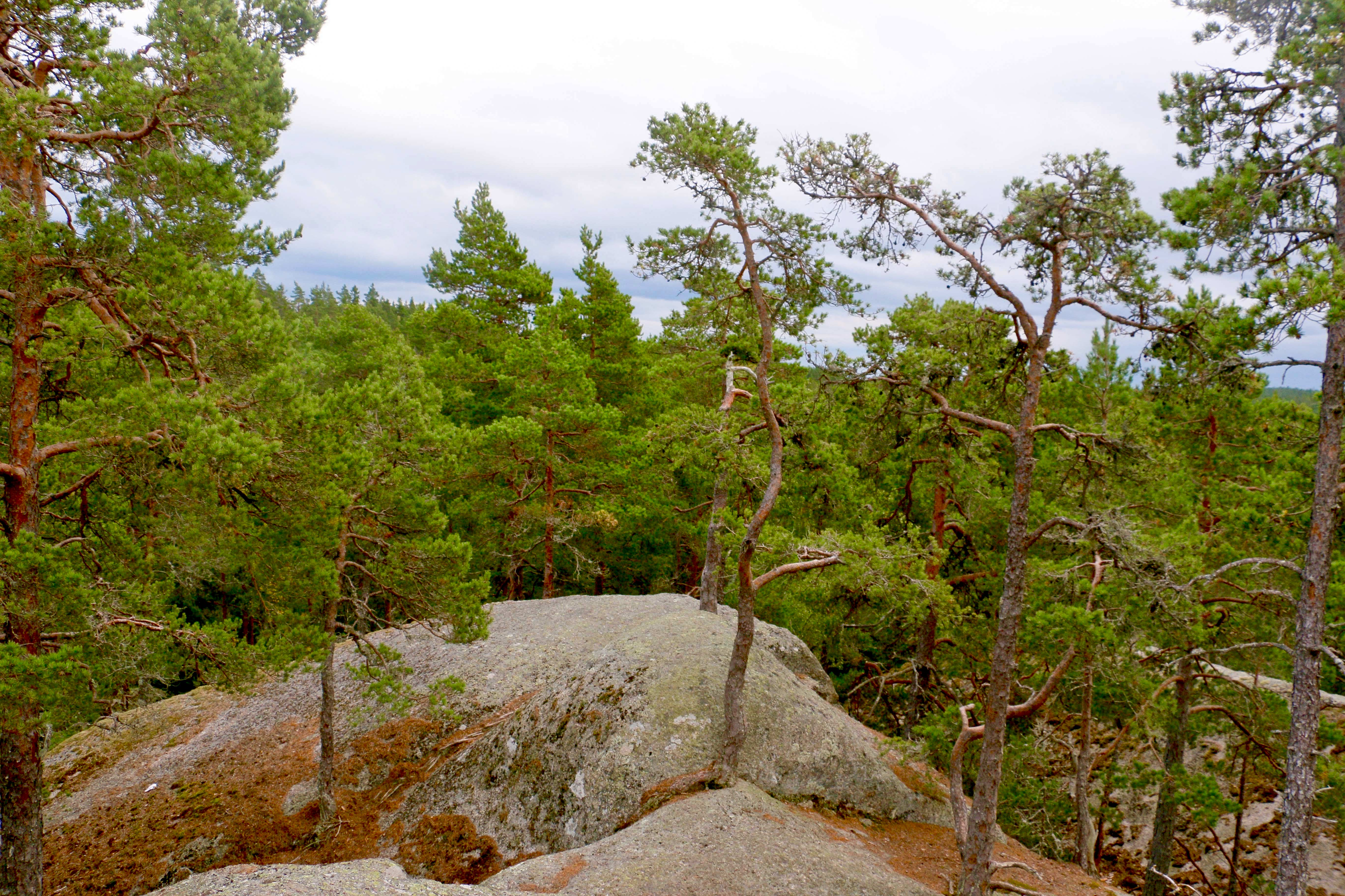 The summit of Stenkälleklack in Tiveden